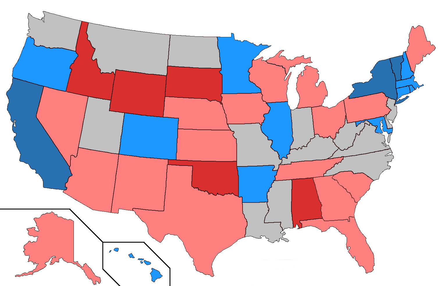 Shows the competitive 2014 Senate seats based on expert predictions. Any seat rated as anything other than "solid" by any expert is shown as being "competitive".